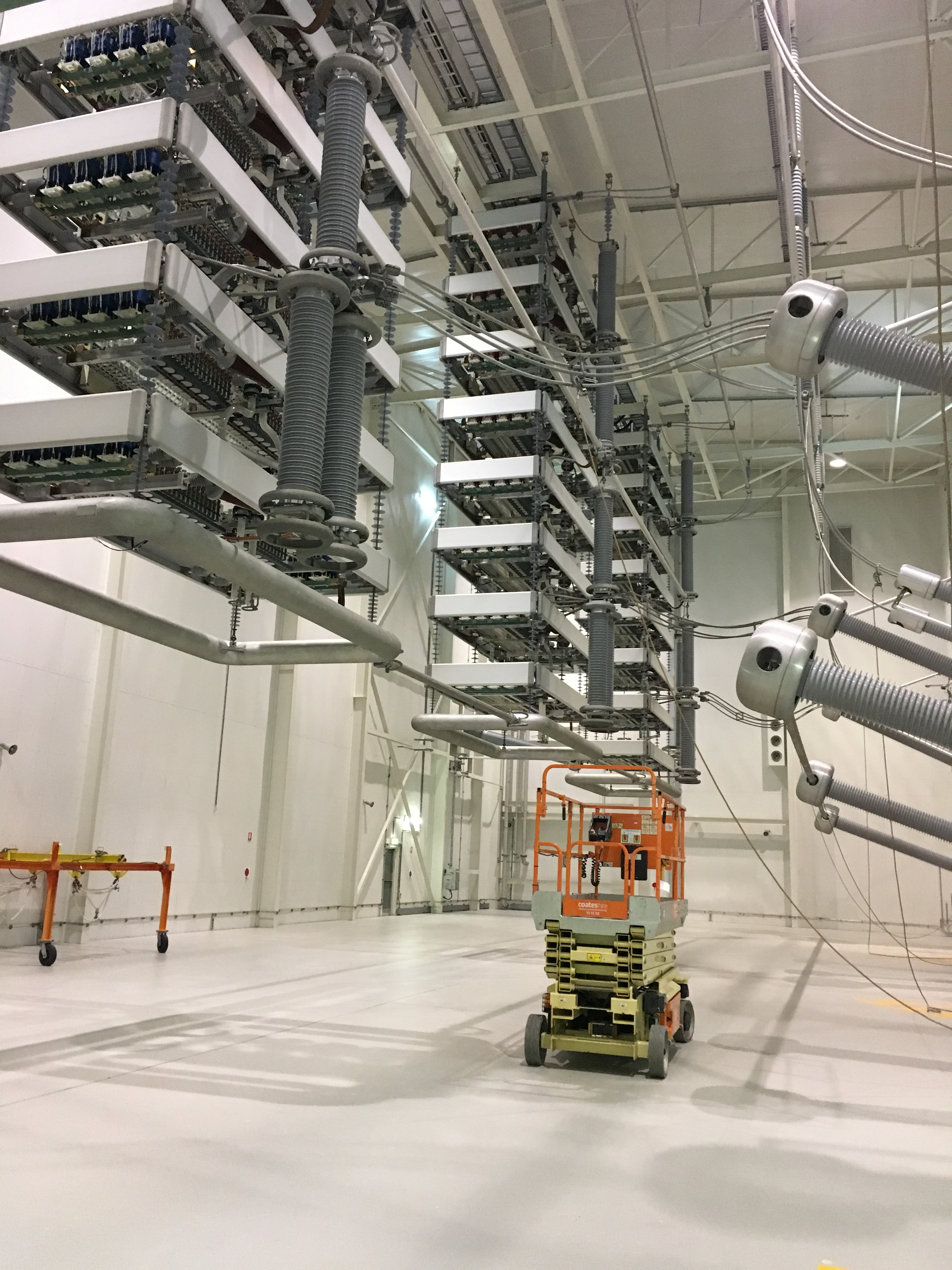 Basslink Thyristor Valve during Service 2017, George Town